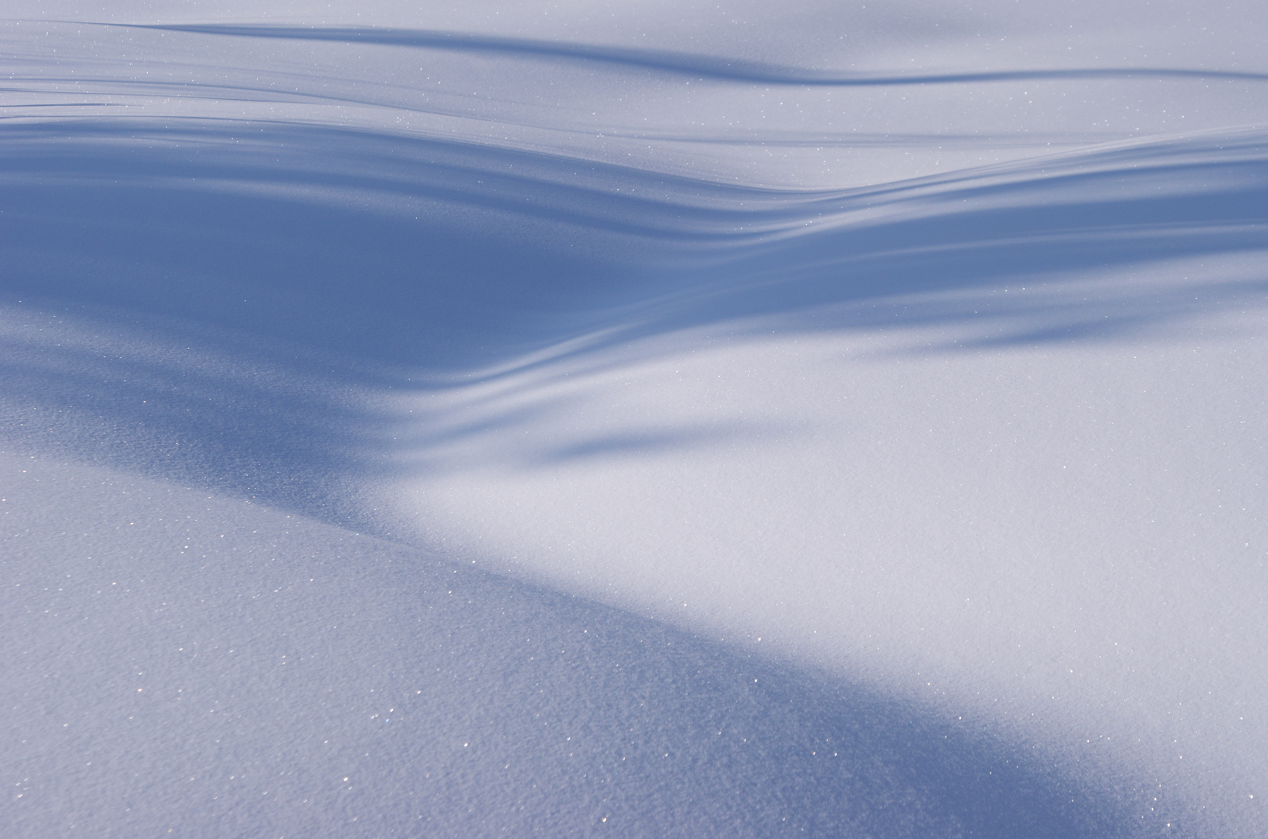 View On Black